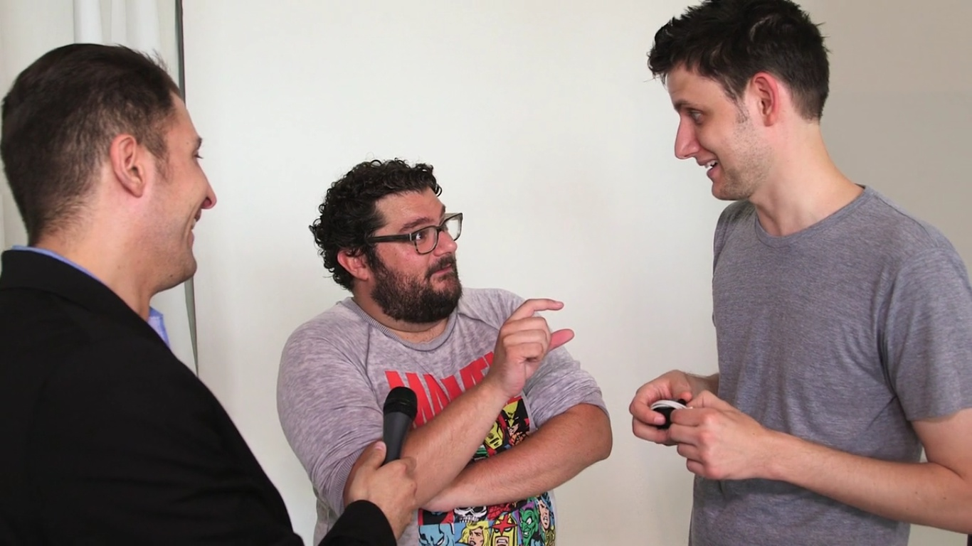 Comedians Bobby Moynihan and Zach Woods at the annual Del Close Marathon in New York City